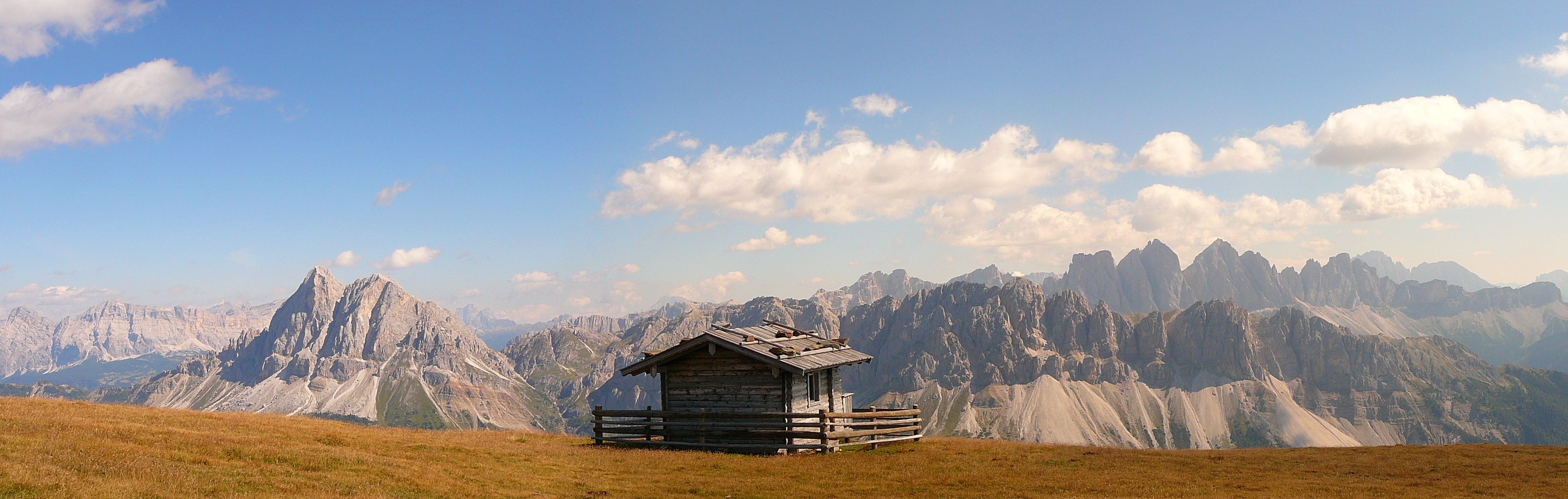 The Odle group in the Dolomites, South Tyrol, Italy